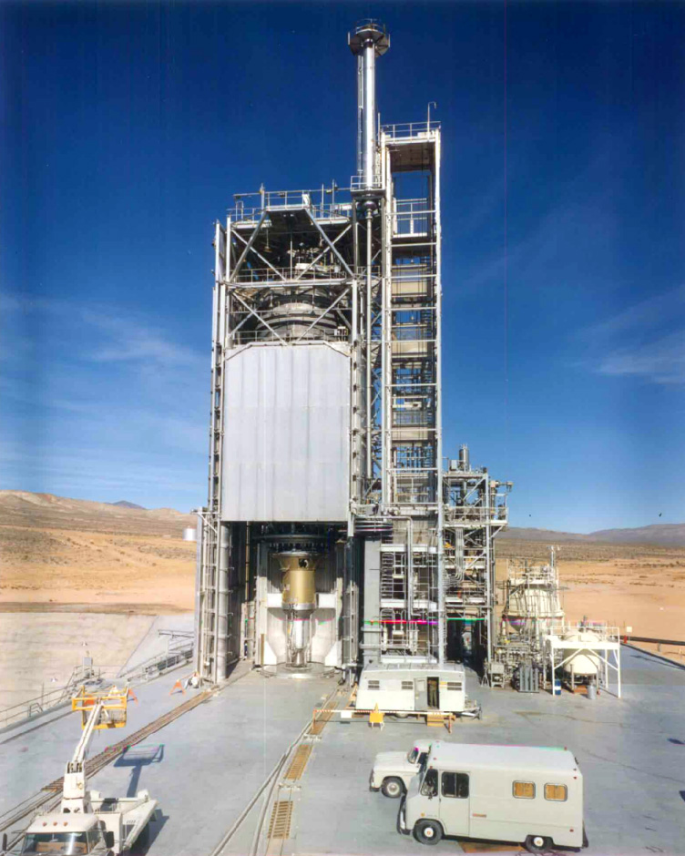 Nevada Test Site - Nuclear Rocket Development Station. Reactor ready to be hooked up at Test Cell “C”.